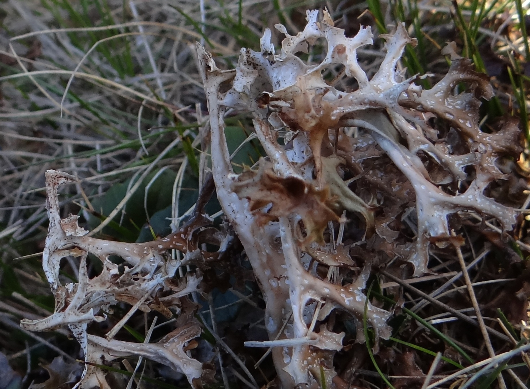 Cetraria islandica (habitat:West Tatra Mountains, Małołączniak)